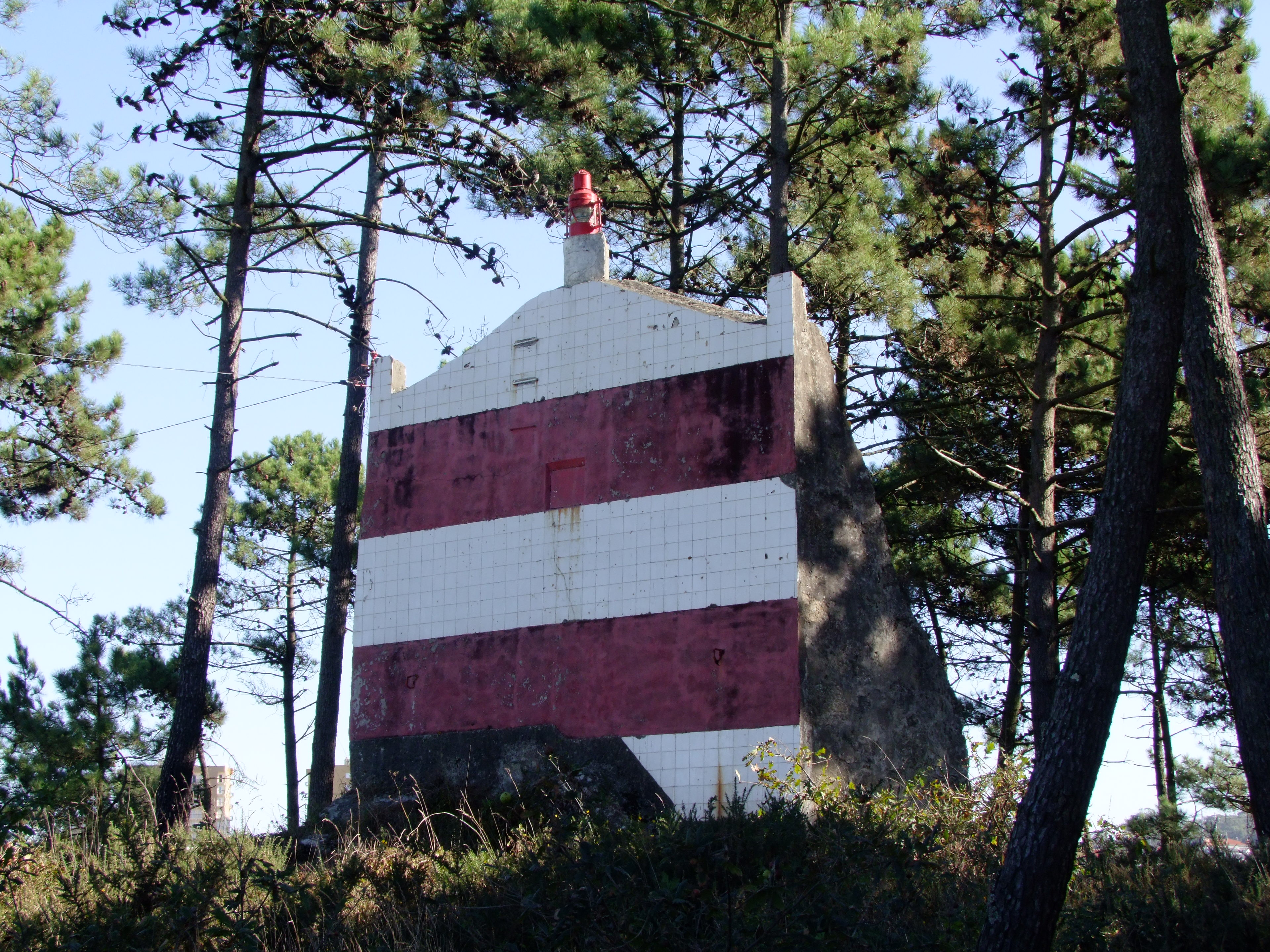 Azurara first range rear, Azurara, Vila do Conde , Portugal Farolim de Azurara (posterior) ou Facho de Árvore, Azurara, Vila do Conde, Portugal